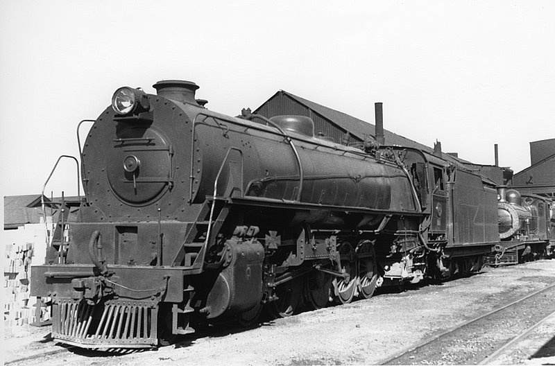 SAR Class 18 (2-10-2) at Germiston loco, with additional plating under the smokebox front